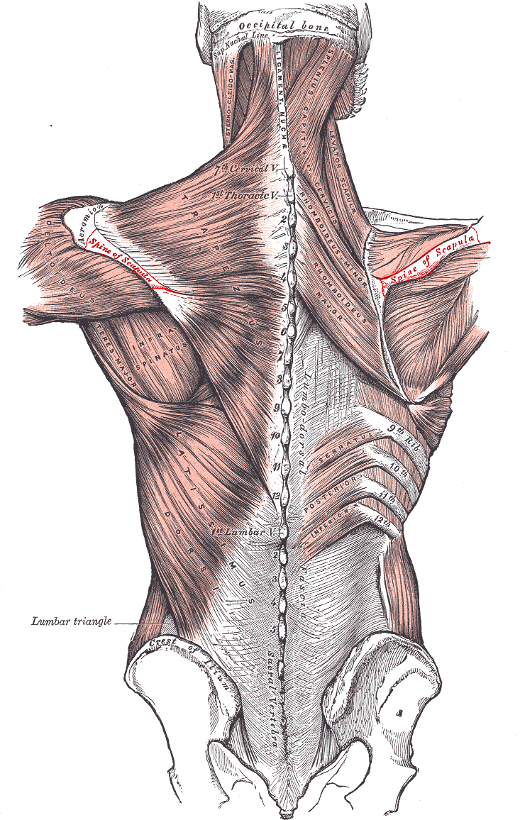 Muscles connecting the upper extremity to the vertebral column.